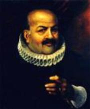 Portrait of Costanzo Festa.